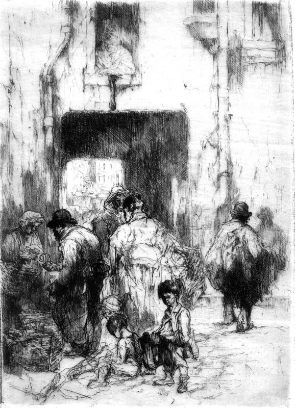 Peddlers, women and children in a courtyard - Paris, around 1910